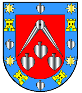 Author: Andrés Garrido The image is under Creative Commons share alike, attribution requiered.